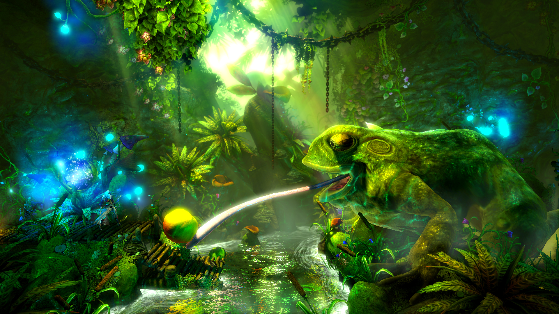 Trine 2 screenshot. Released in 2011, the game was developed by Frozenbyte. Zoya approaches a giant frog in this scene from the Mudwater Dale chapter.